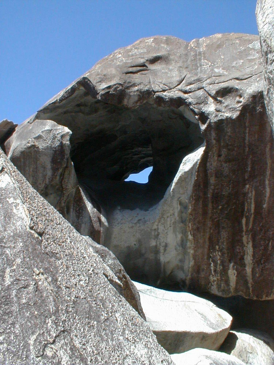 Picture of the water-eroded rock formations at The Baths, British Virgin Islands. Picture shot February 6th 2000.